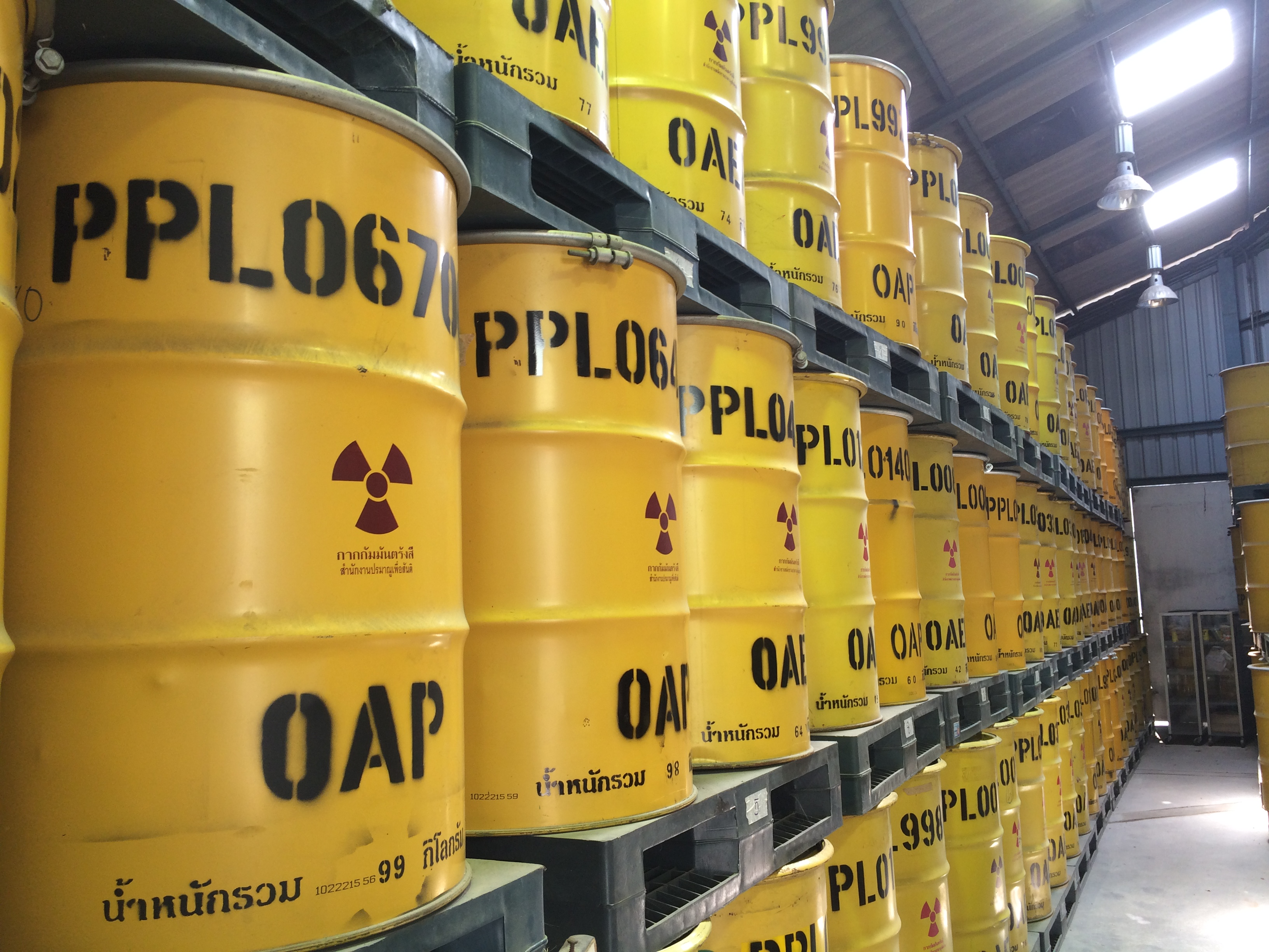 Vessels used for keeping the used radioactive waste. OAP stands for Office of Atoms for Peace. OAEP stands for Office of Atomic Energy for Peace.